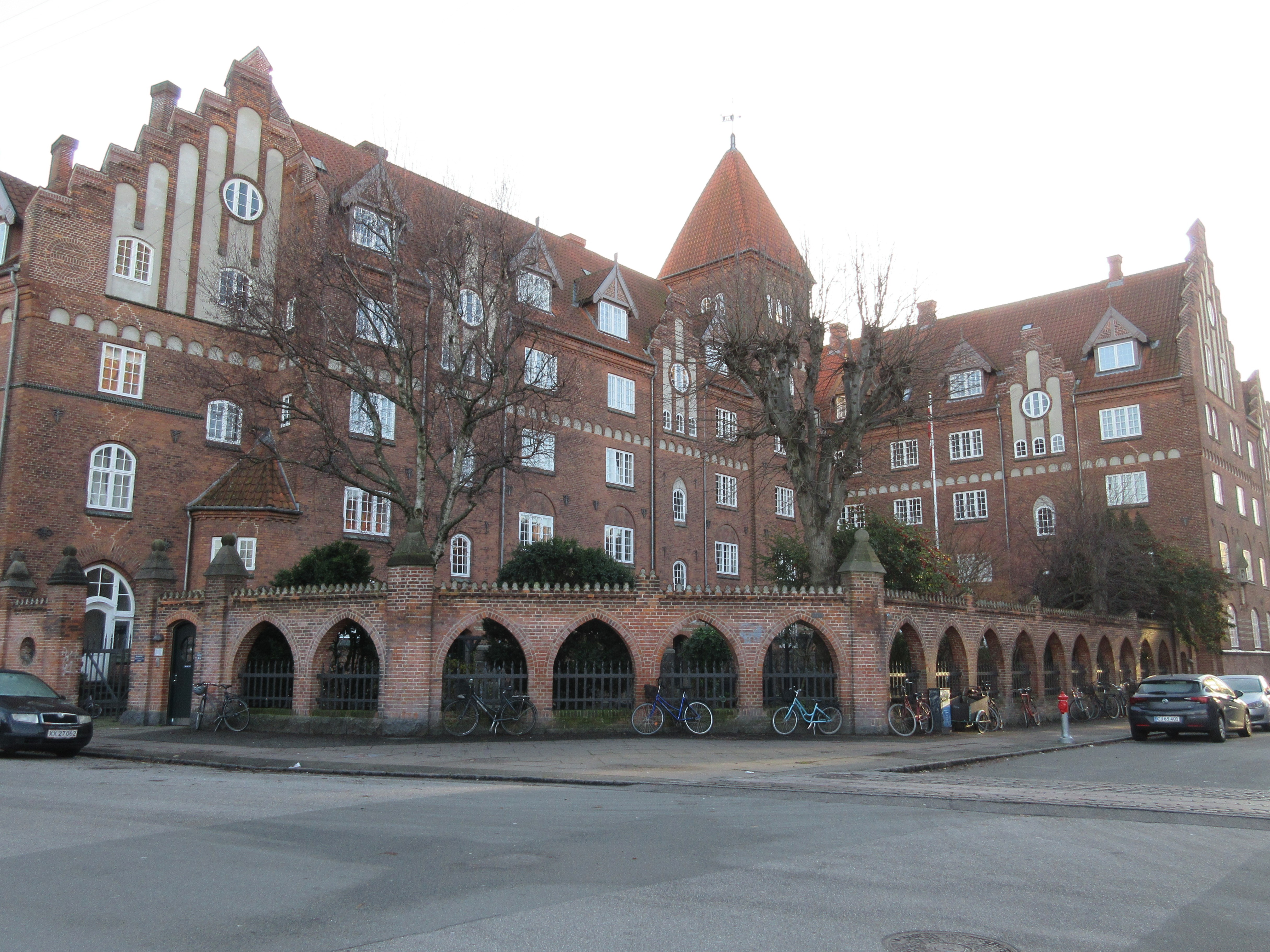 Manufakturhandlerforeningens stiftelse in Bragesgade in Copenhagen, Denmark